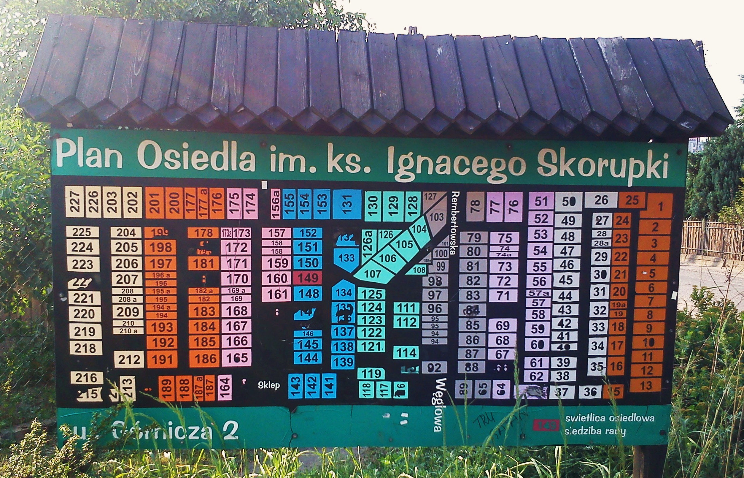 Plan of Skorupki District, Poznan.